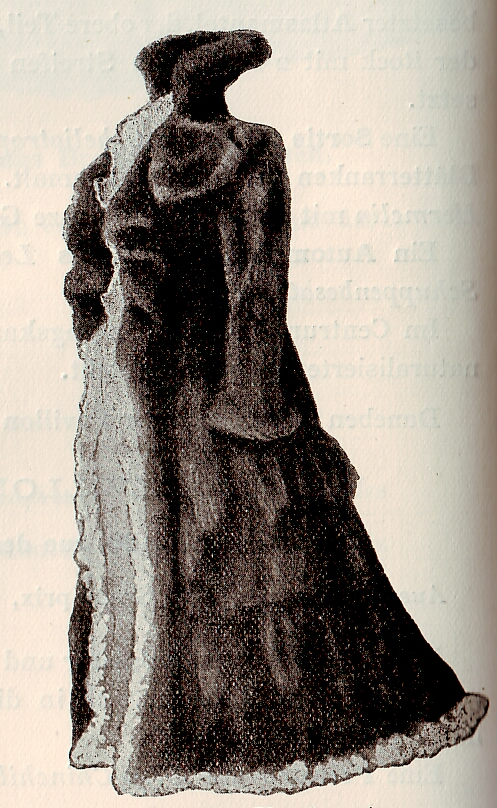 Sable fur coat (front side), Pfeiffer und Brunet, Paris